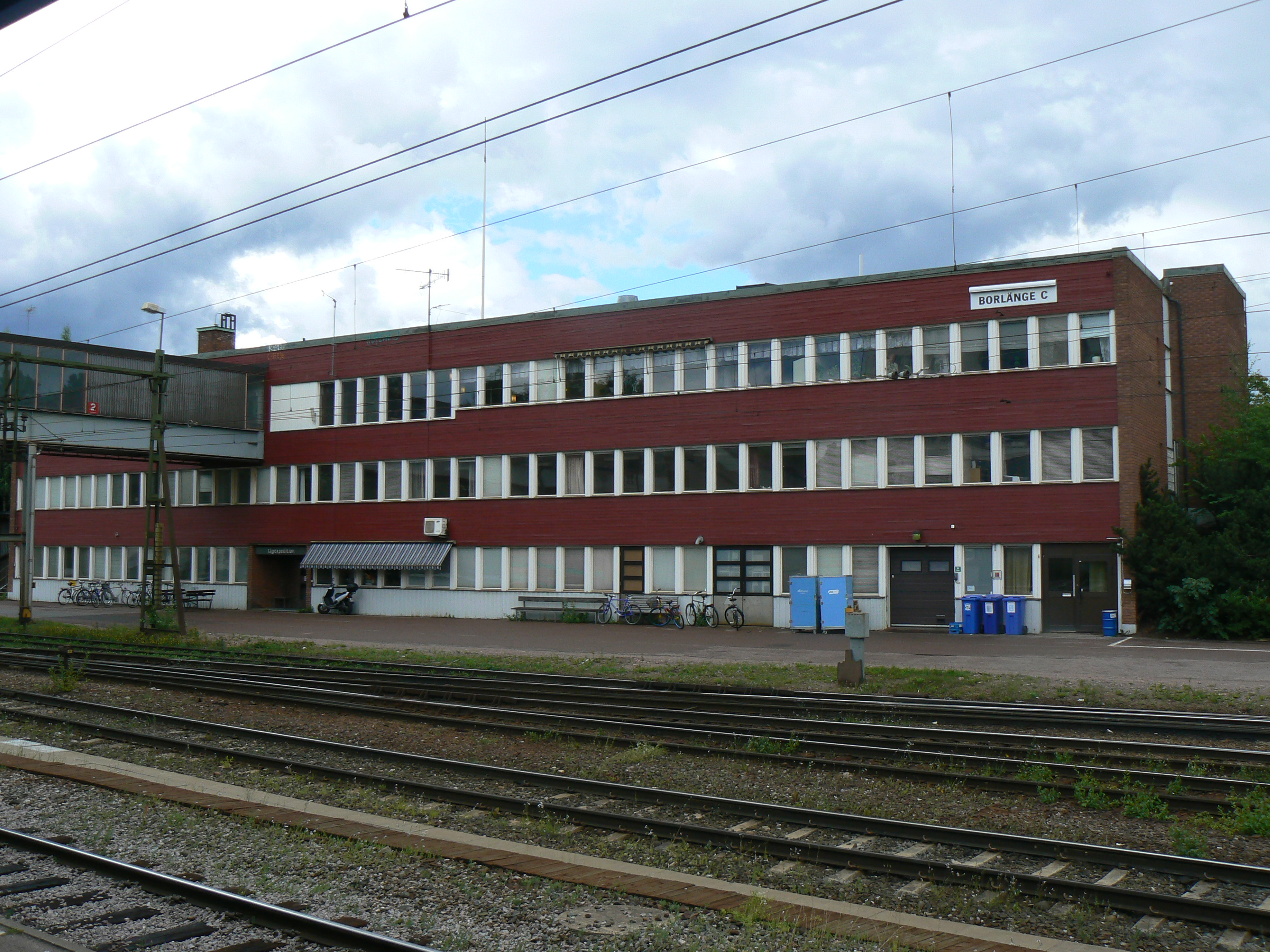 The railway station building in Borlänge, Sweden.